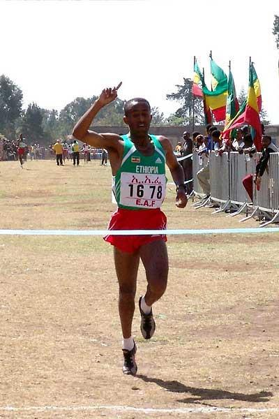 Ethiopian runner Addis Abebe at an unknown race, exact date unknown but likely before 1992.